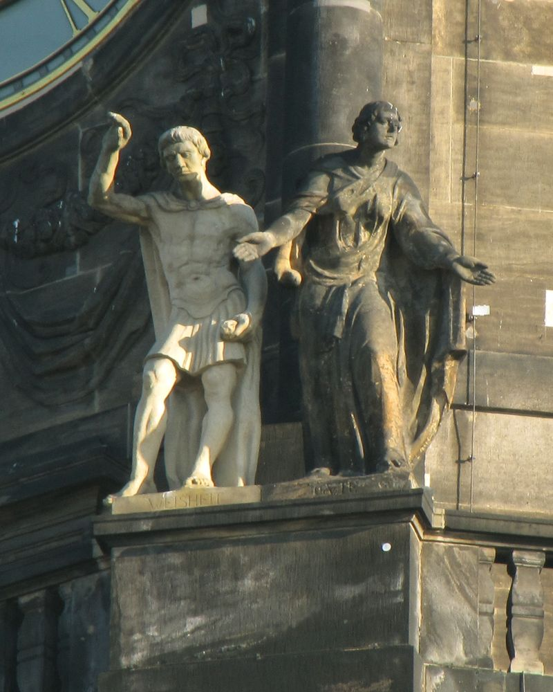 Virtue statues „Weisheit“ (wisdom) and „Güte“ (kindness) at Neues Rathaus, Dresden